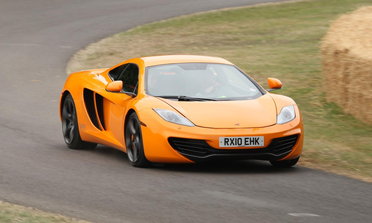 pictures from friday at fos